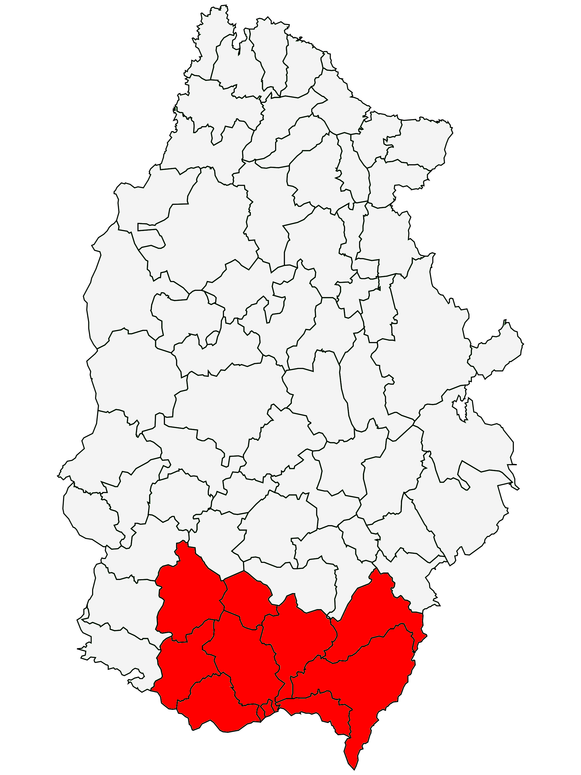 Monforte